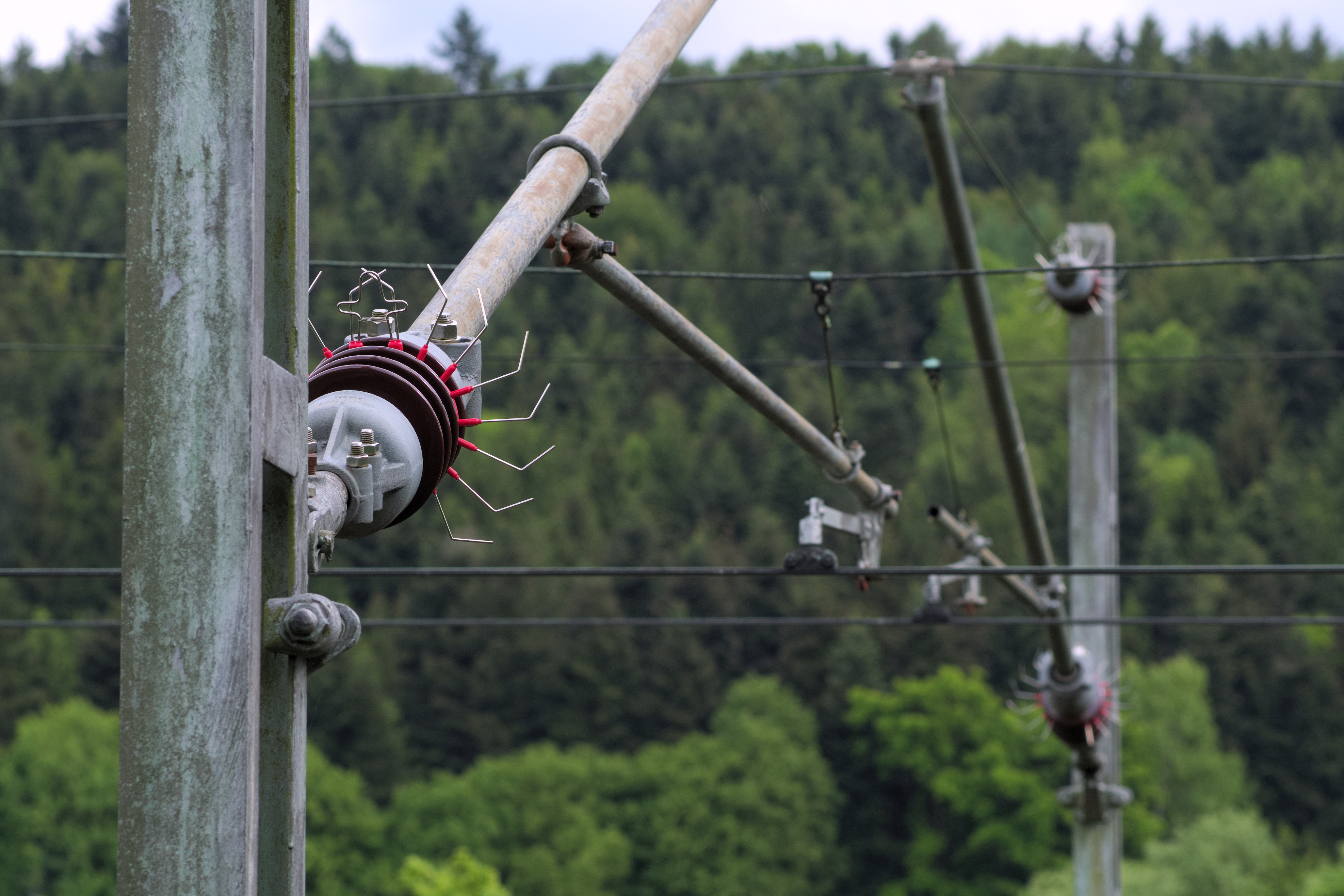 Traction current insulator equipped with Animal Guard™ to keep small animals off the voltage